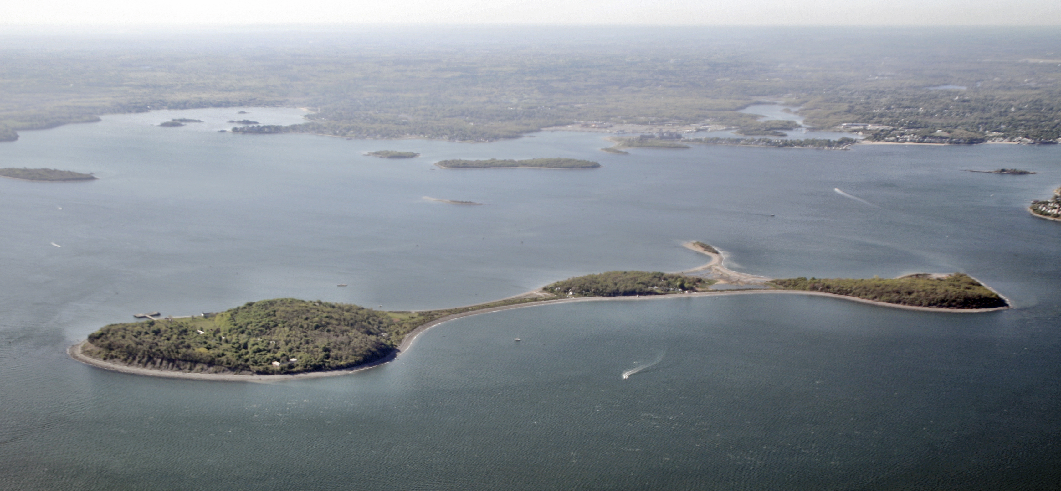 Peddocks Island (looking southwesterly). The remains of Fort Andrews, on East Head, are on the left. The current boat dock is visible at left, on the southeasterly (far) side of the island. Middle Head takes up most of the rest of the island, including Portuguese Cove. Harry's Rock on the far side.